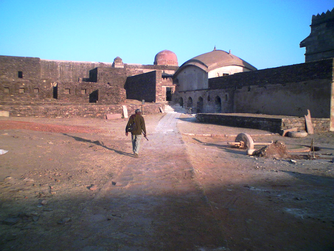 Fort (including walls Gates and other ruins monuments in the fort)